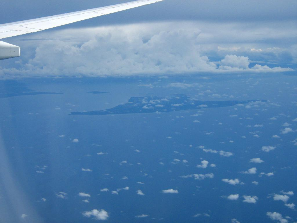 Labuan Island taken from flight from KL to KK onboard MH Airbus A330